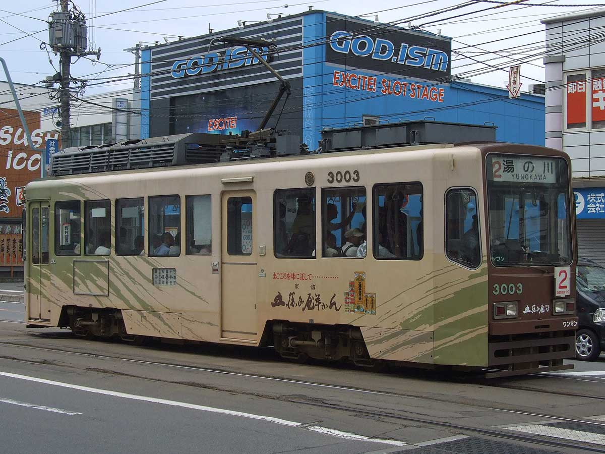 Type3000,Hakodate city transportation bureau,Japan